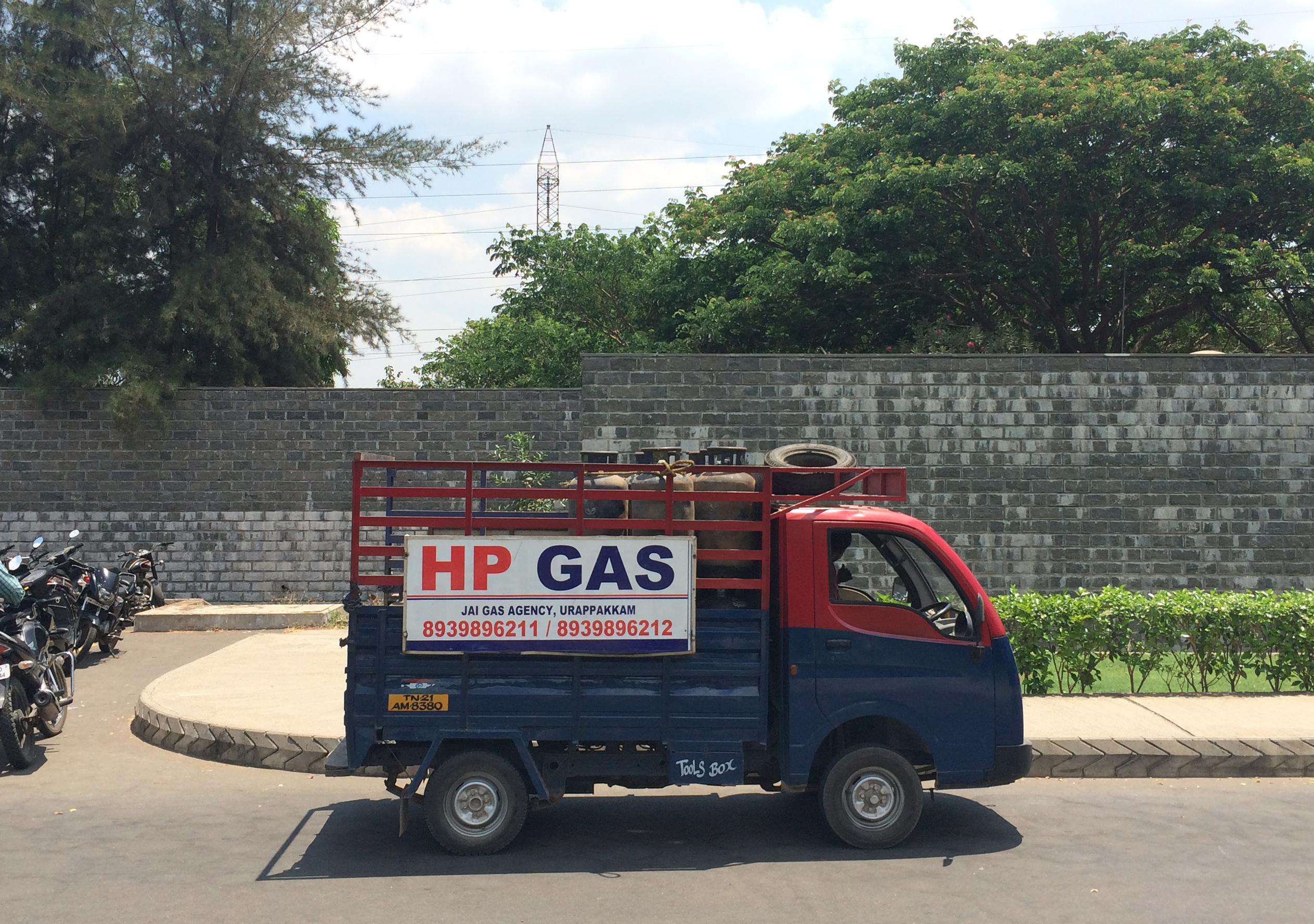 A Tata Ace Micro-Truck distributing Hindustan Petroleum Cooking Gas cylinder. (2016)